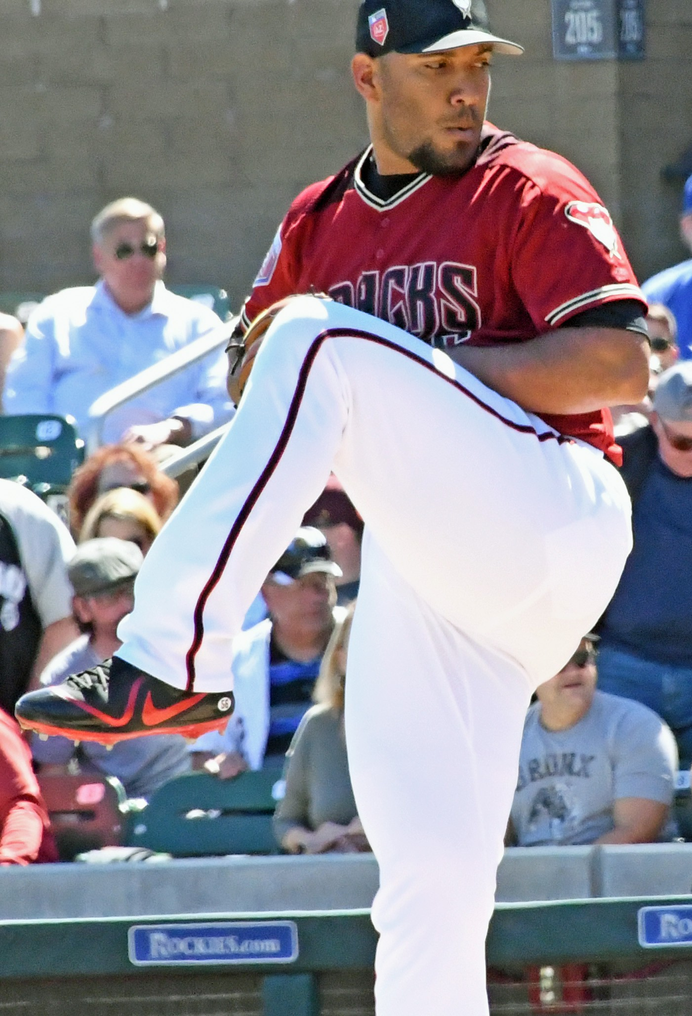 Albert Suárez in 2018 spring training